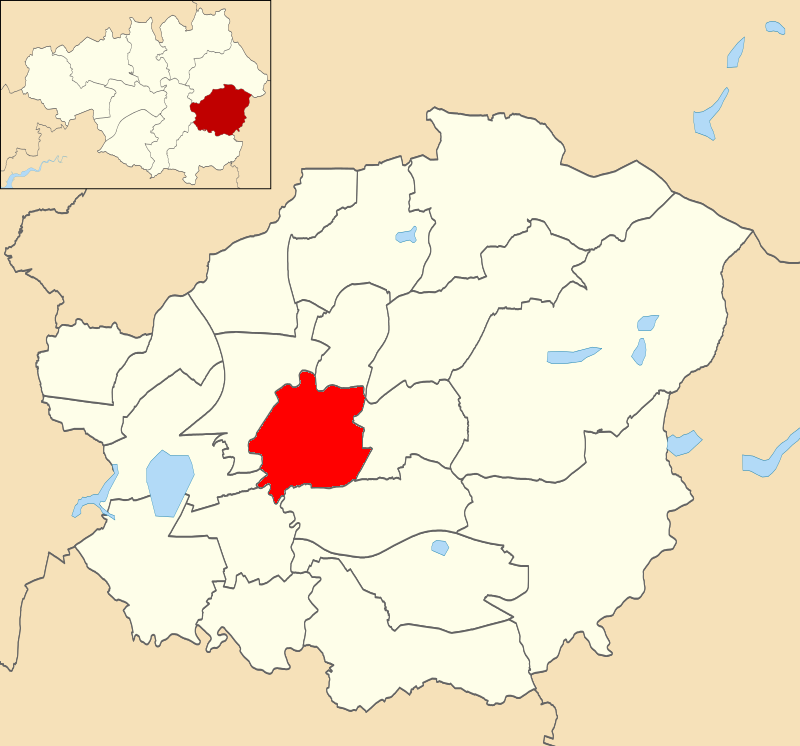 Map showing location of Dukinfield Ward within Tameside Metropolitan Borough Council.